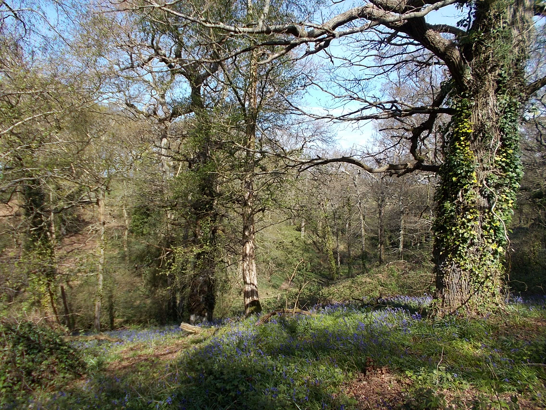 America Wood, near Shanklin, Isle of Wight, UK